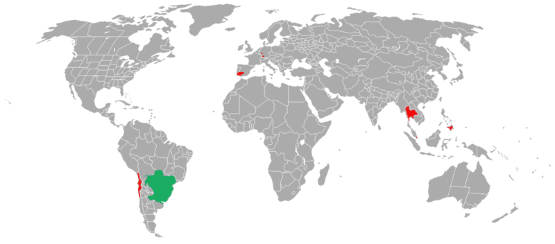 Distribution map of Australoheros facetus. In green its original area, in red where it has been introduced.